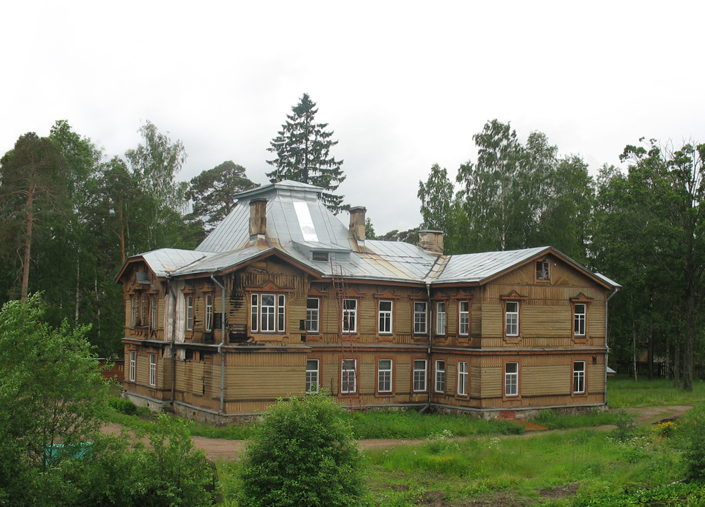 Domovaya Nikolsky Church (Russia)